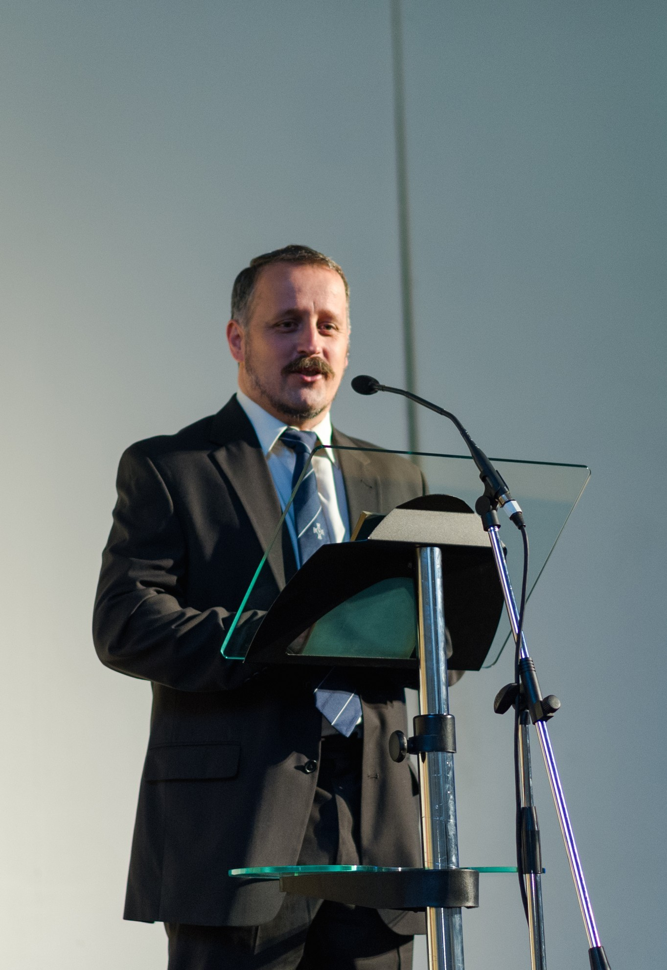 Bartusz-Dobosi László in 2014.